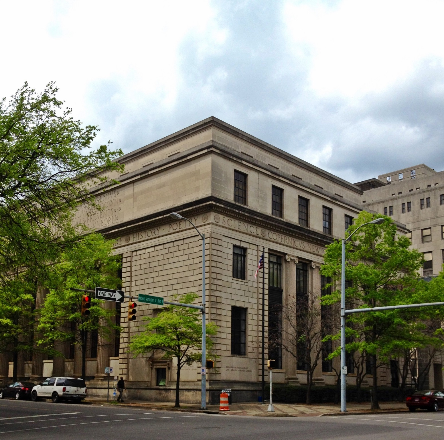 Birmingham Alabama Library Downtown